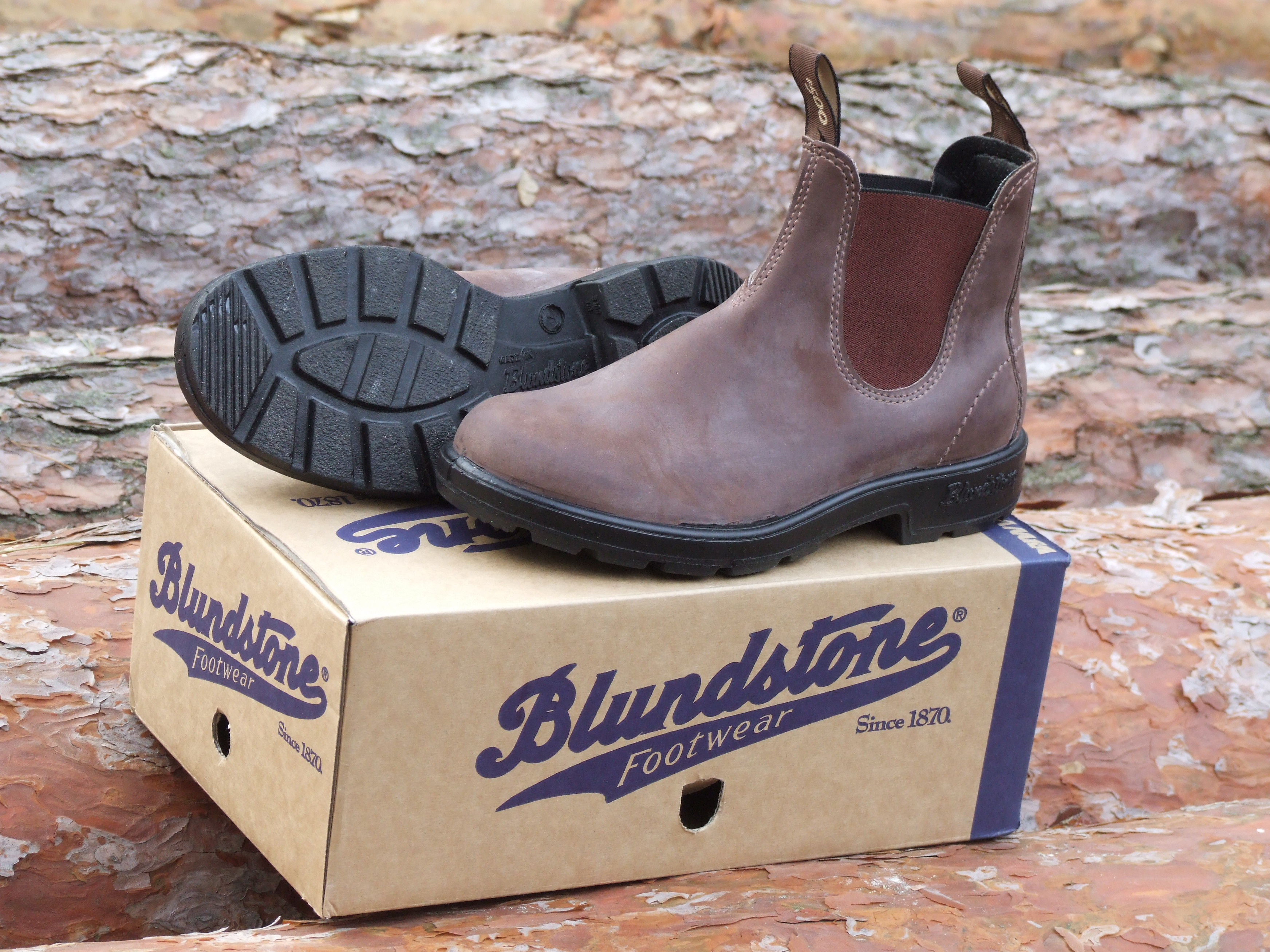 Bundstone 528